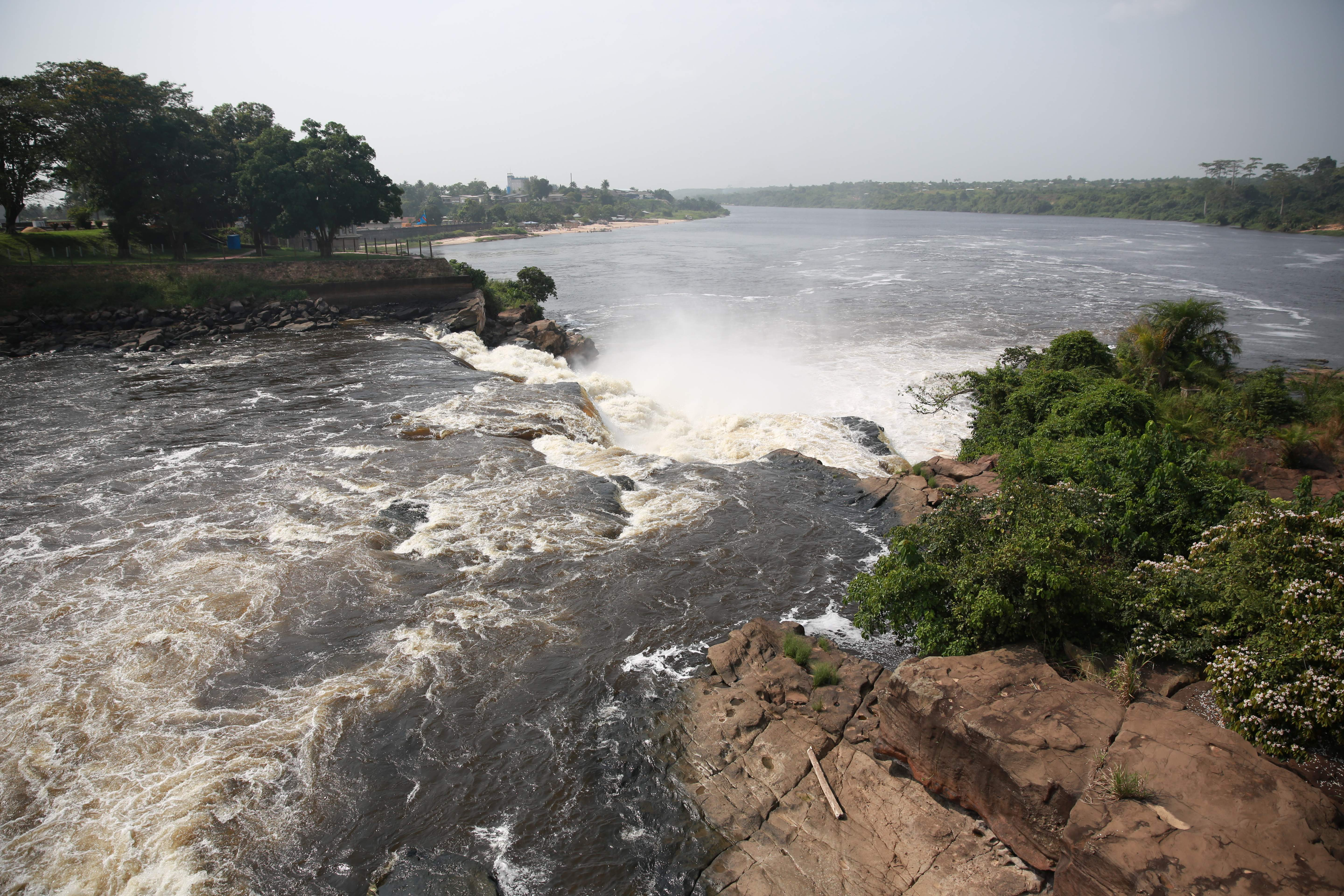 Kisangani, Province Orientale, DRC, 04 January 2015: Our photographer ventured up to the cascades of the Tshopo river, to give us a view of the beauty Nature has to offer. And this is one reason why Mother Nature needs to be protected and preserved. Photo MONUSCO/Abel Kavanagh